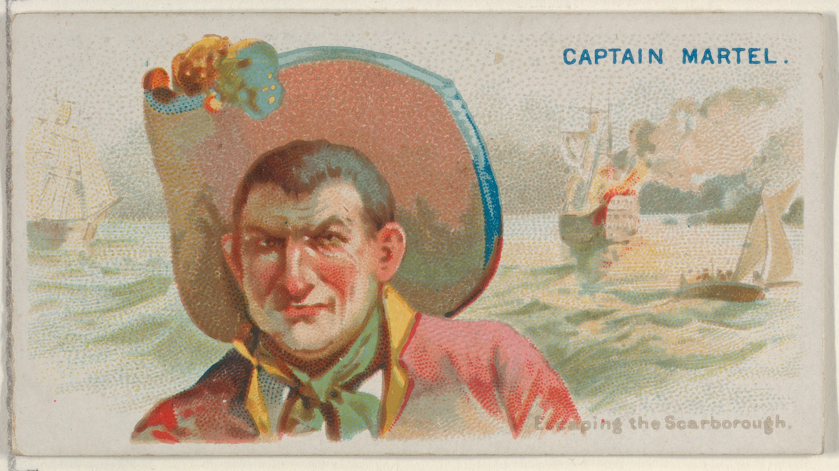 Print; Prints